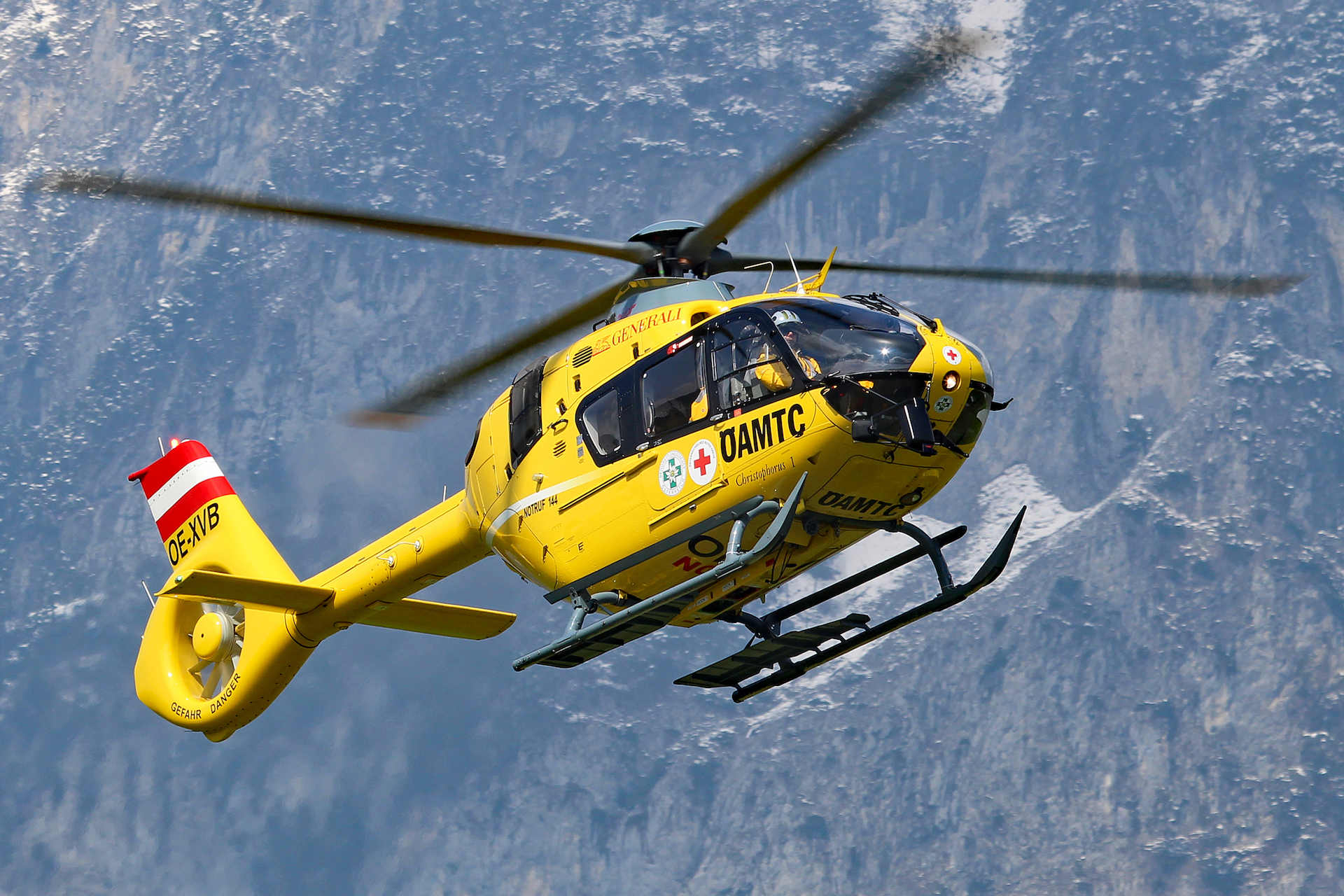 Christophorus 1 landing at Innsbruck.